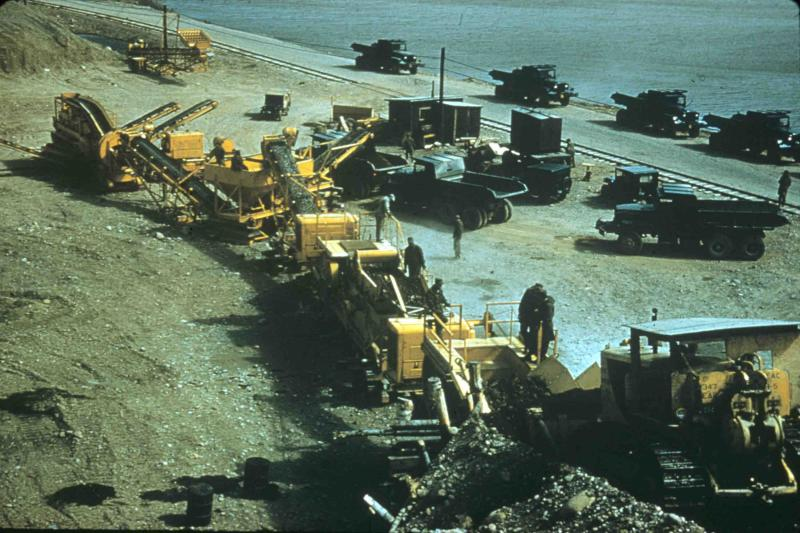 Construction equipment, rock crushing operations, along Hanson Highway, Ernest Harmon Air Force Base, Stephenville, Newfoundland, 347th EAB, US Army Corps of Engineers.